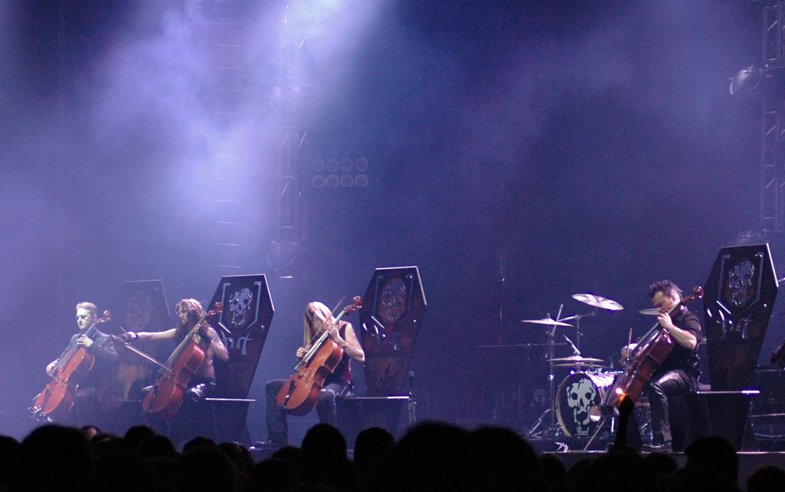 Apocalyptica band at Metalmania Festival 2005 in Poland